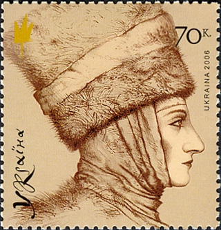 Stamp of Ukraine, 2006